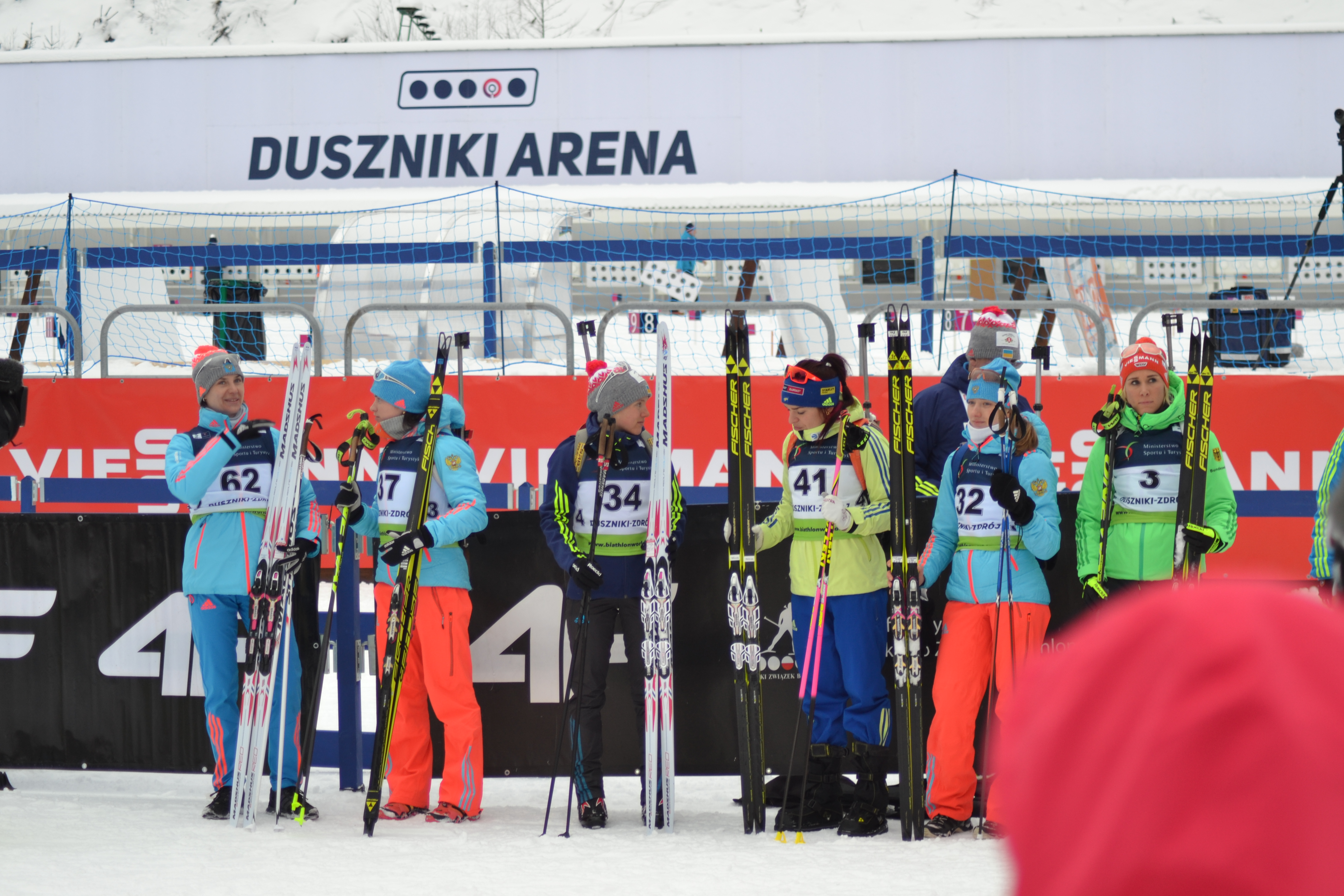 Open European Championships Biathlon 2017, Individual Women's race, held on January 25th.